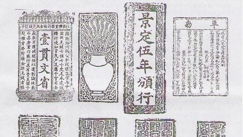 The designs used for the Guanzi banknotes.